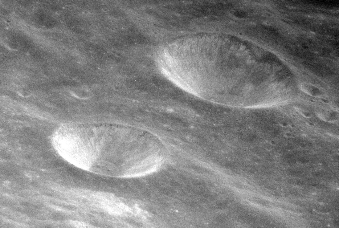 Oblique view of Glazenap E (upper right, 13 km diameter) and Glazenap F (lower left, 9.4 km diameter) craters, on the far side of the moon.